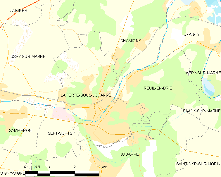 Map of French municipality La Ferté-sous-Jouarre